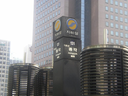 Jong gak station of subway 1 in Seoul